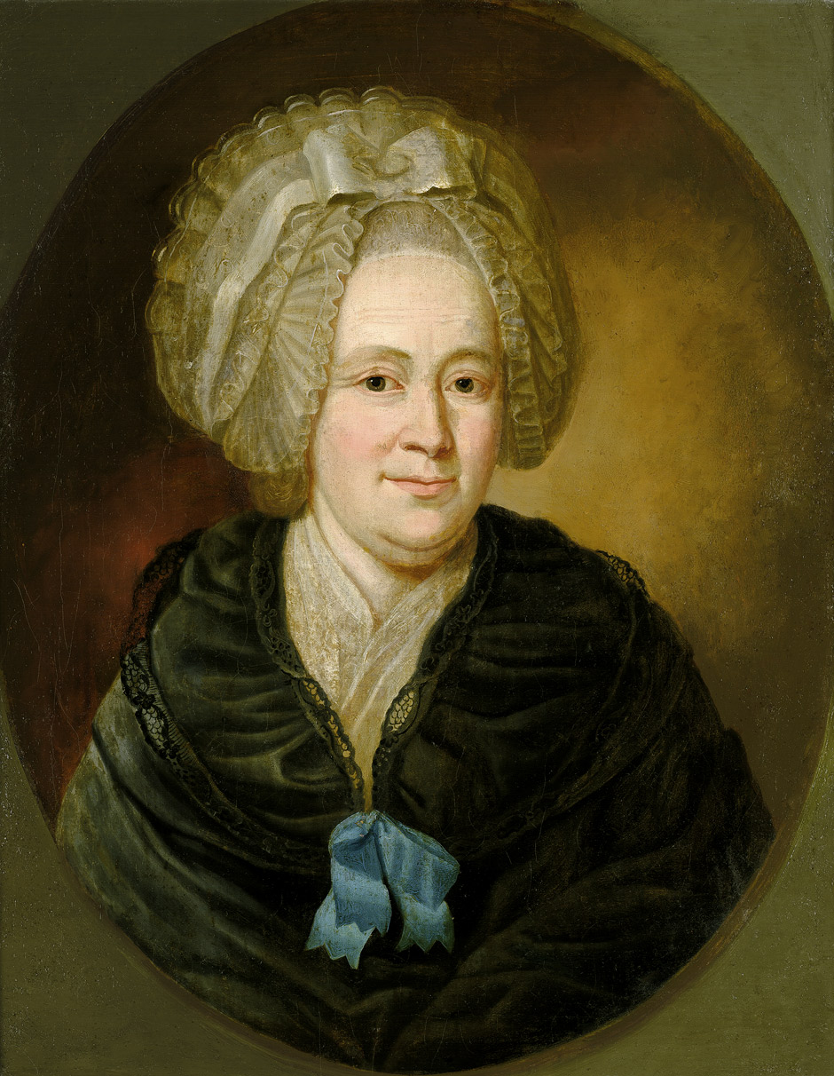 Portrait of Katharina Elisabeth Goethe (1731-1808)